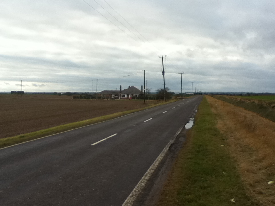 Gosberton Fen showing the B1397 road heading out towards Dowsby.